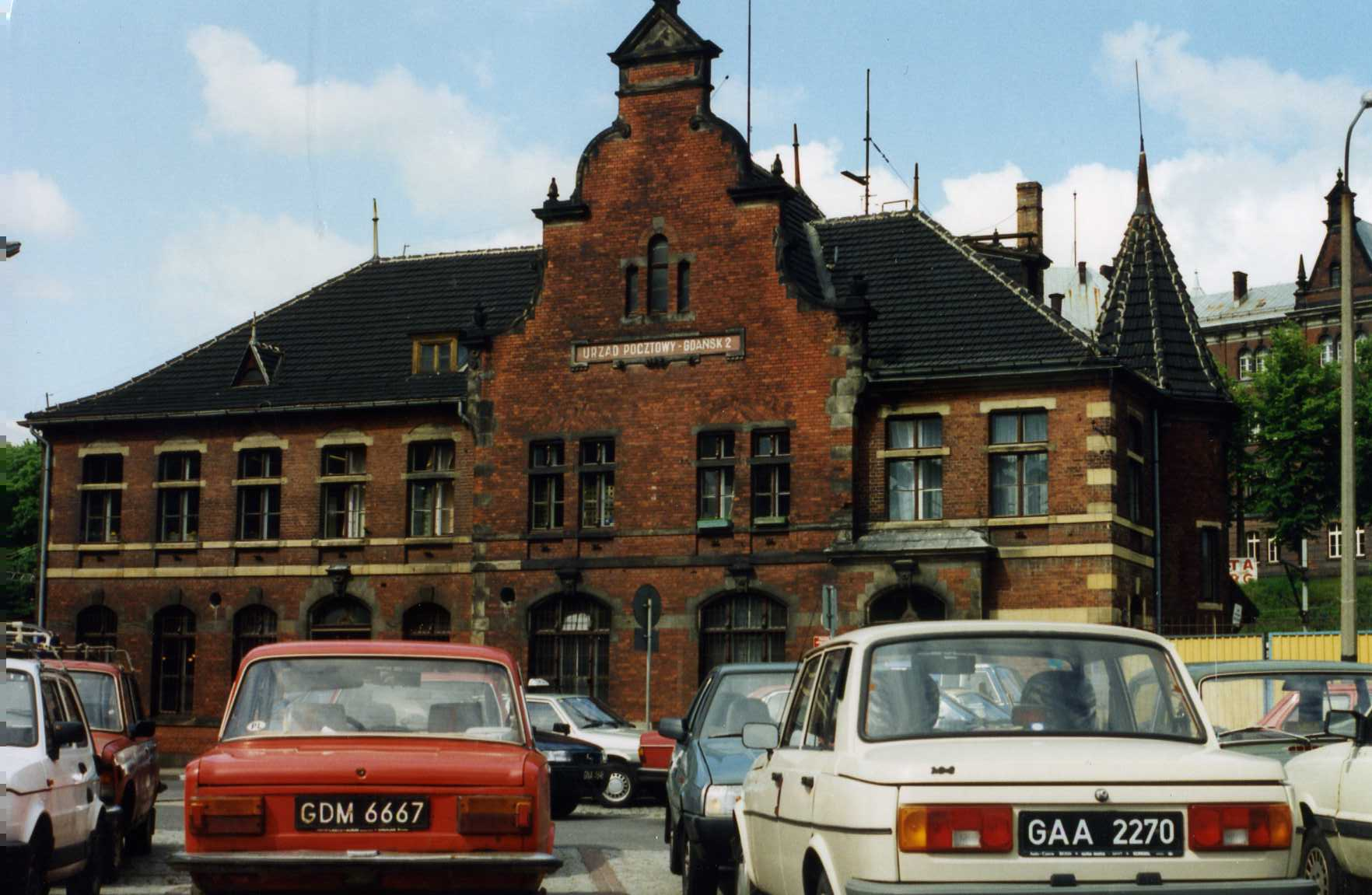 The Post Office No 2 in Gdańsk (Poland). The black and white registration plates are now a thing of the past. They were very distinctive, one could almost transpate them into UK counties.